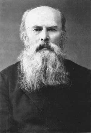 Stepan Yevseyevich Grinevsky, father of writer Alexander Grin